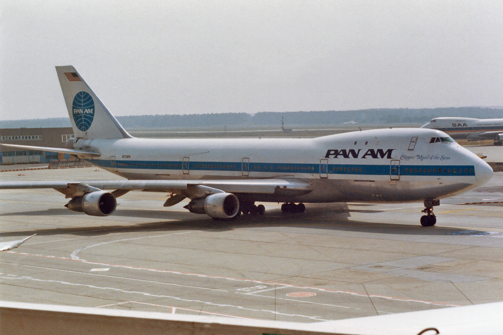 Frankfurt am Main (Rhein-Main AB) (FRA / EDDF / FRF) Germany 7.1986 "Clipper Maid of the Seas" was destroyed by an inflight bomb explosion over Lockerbie, Scotland, 21.12.88.